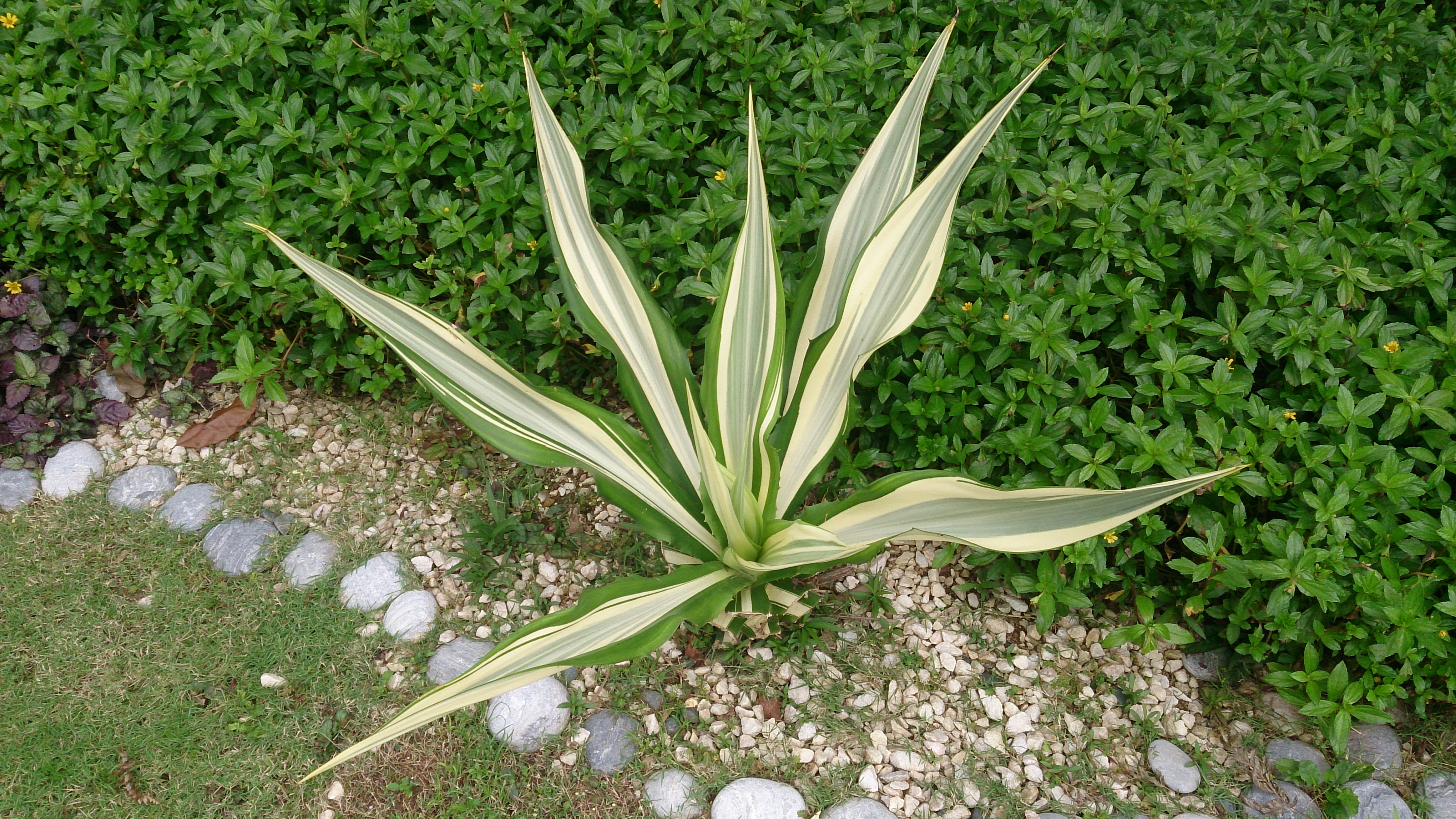 Furcraea foetida 'Striata'. Common name: Giant False Agave. 黃紋萬年麻 (Chinese).